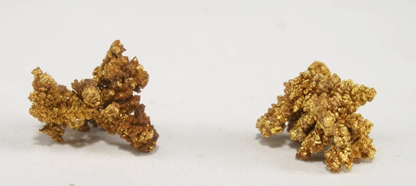 Gold Locality: Hope's Nose, Torquay, South Devon, Devon, England, UK (Locality at ) Size: 0.9 x 0.8 x 0.7 cm (largest). A fine 2-piece set from England’s most famous gold locality, Hope’s Nose in Devon. These beautiful and sculptural, arborescent thumbnails consist of rich golden, spinel-twinned "limbs" of hoppered octahedrons. Excellent material from this well-known locality. Ex. Irv Brown Thumbnail Collection.